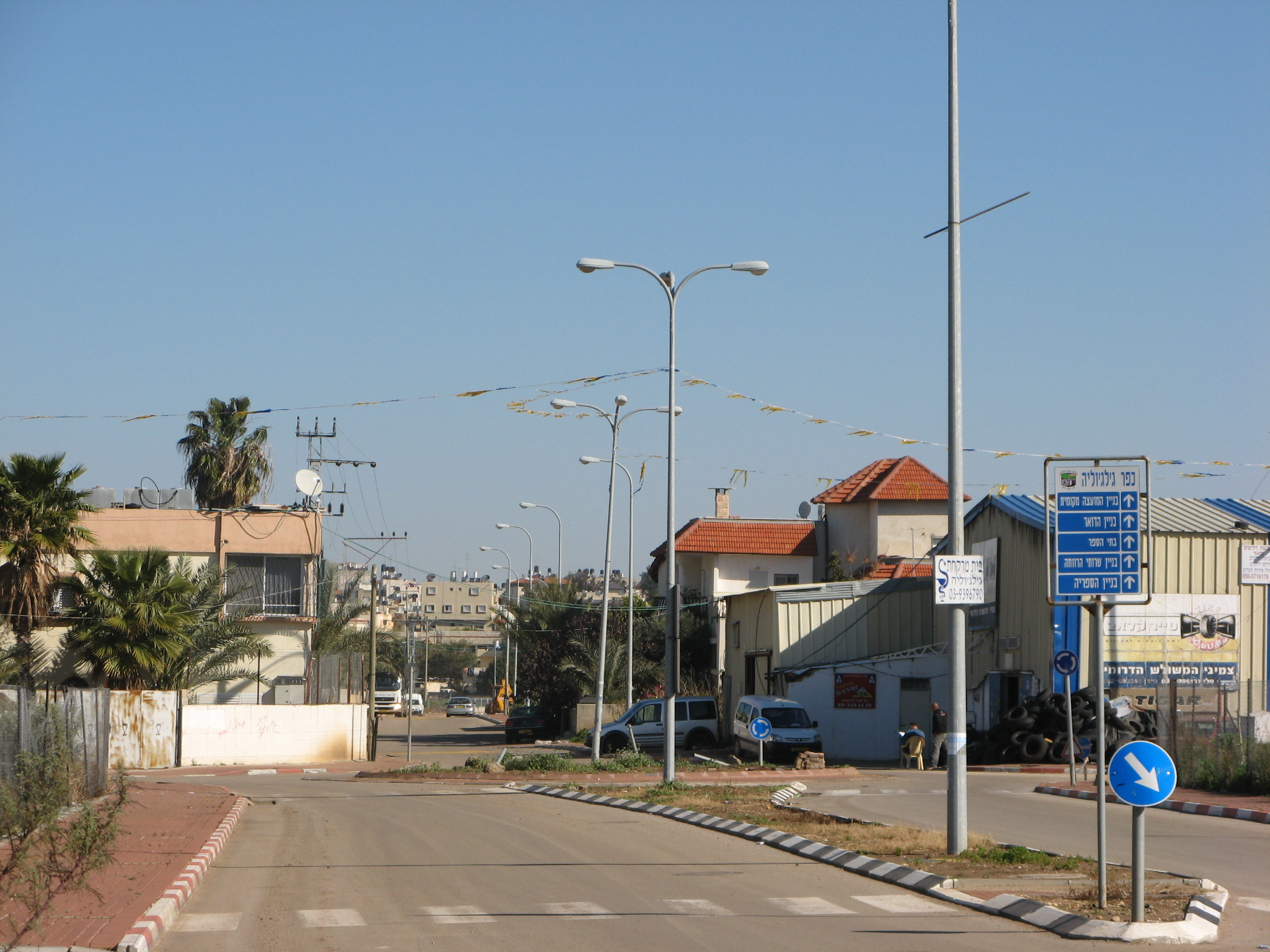 South entrance of Jaljuliya